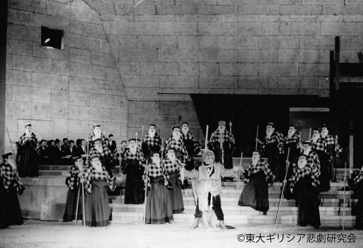 Greek Tragedy 1965 Tokyo University Greek Tragedy Institute-c